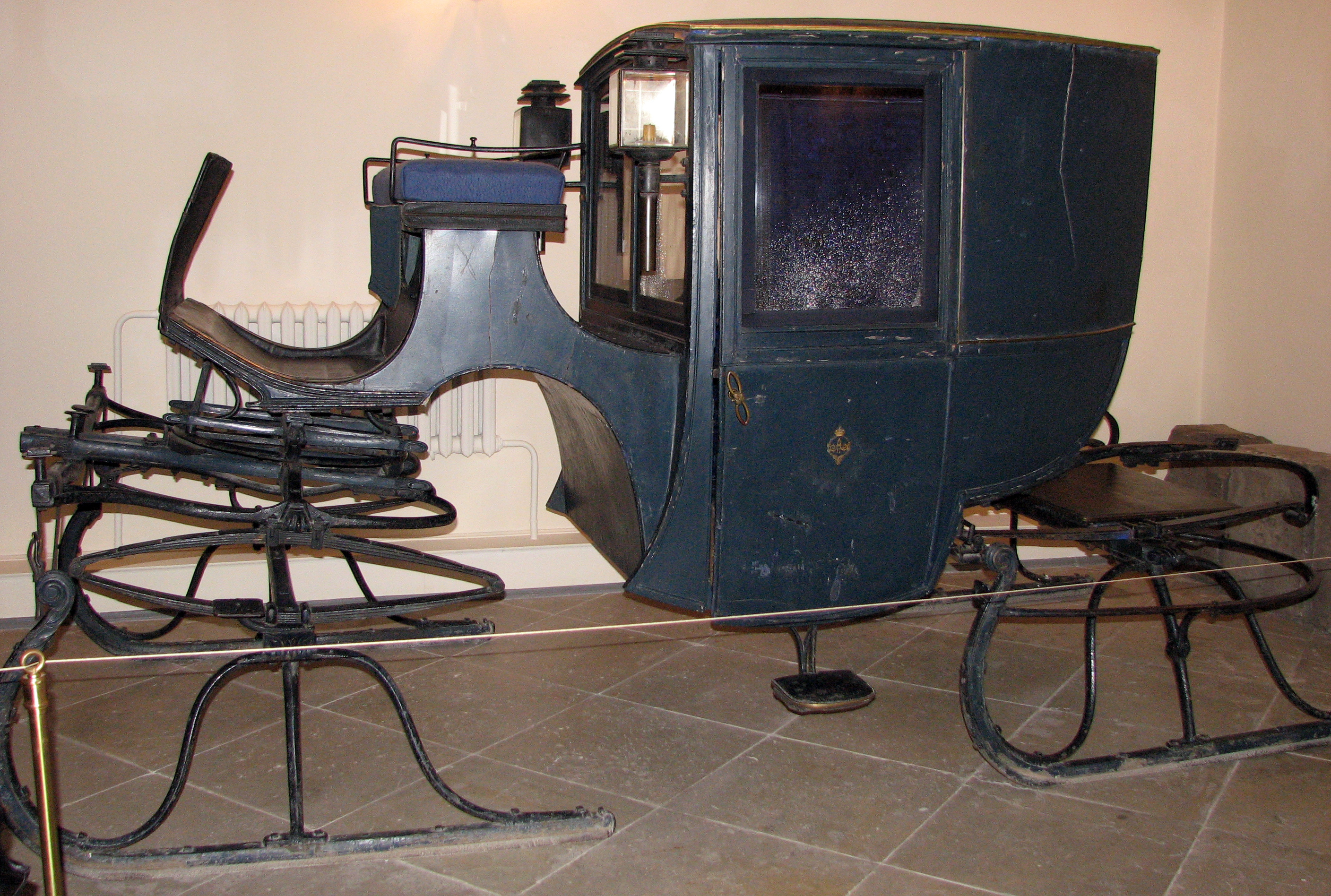 Coach-sleigh of Alexander II. Russia, St. Petersburg, 1873. Carriage workshop of Ivan Breytigam. Length 3.8 m, width 1.45 m, height 1.95 m. In the spring rails are replaced on a wheels.